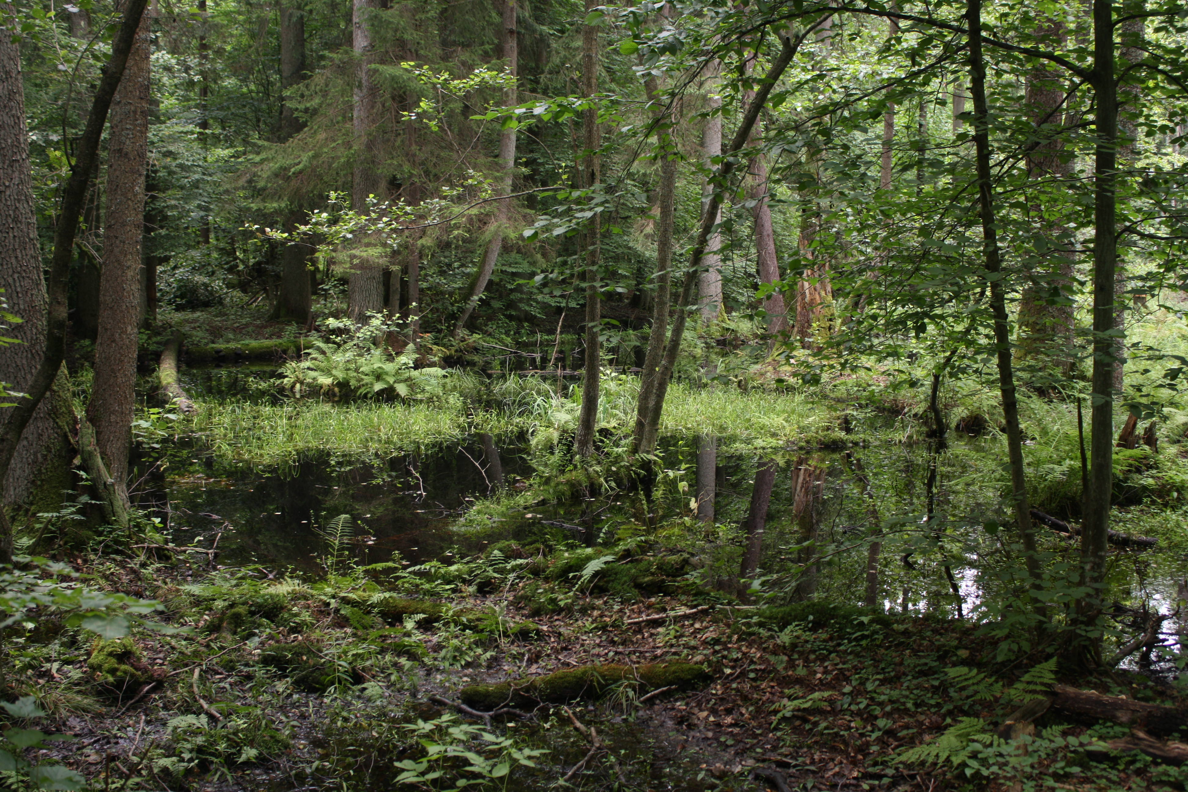 Białowieski National Park (Podlasie Voivodeship)